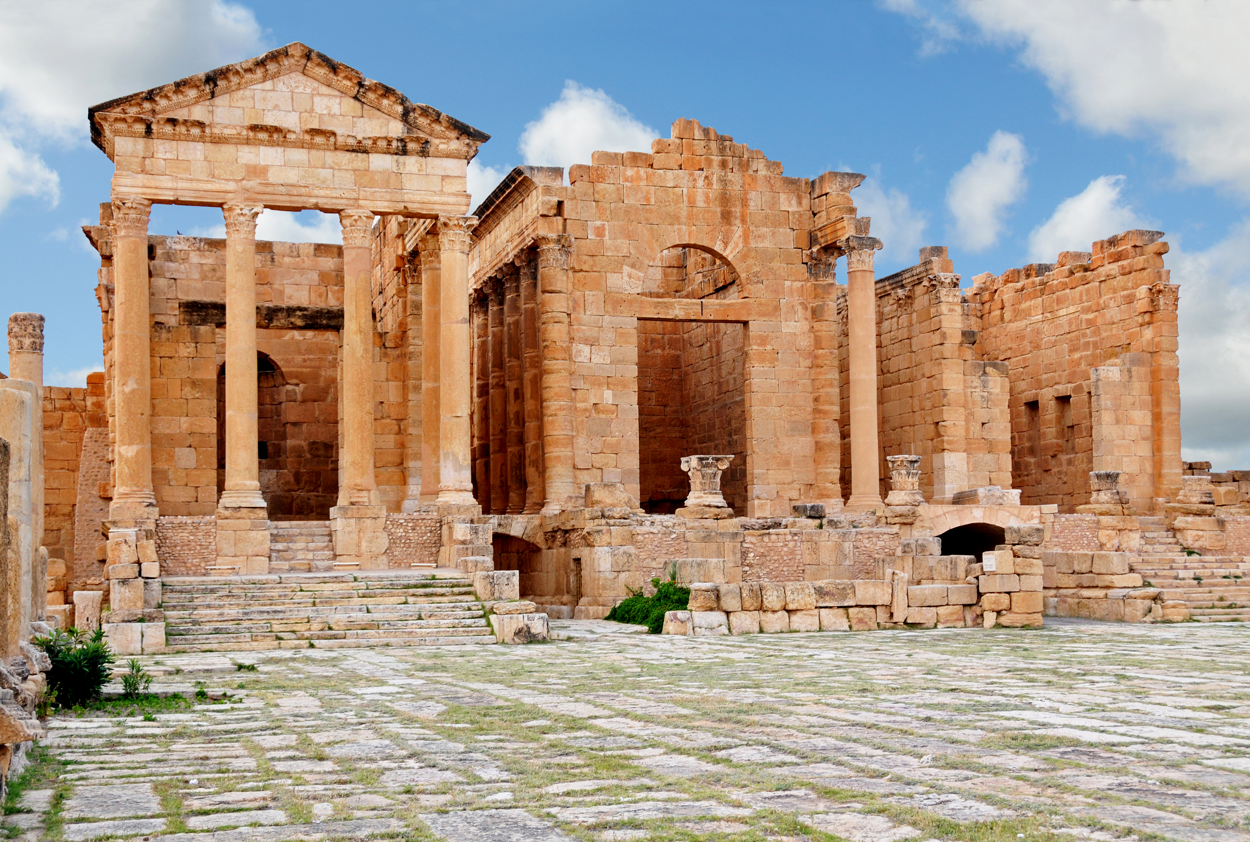 Sbeitla forum and capitoline temples with its three almost intact temples in the center